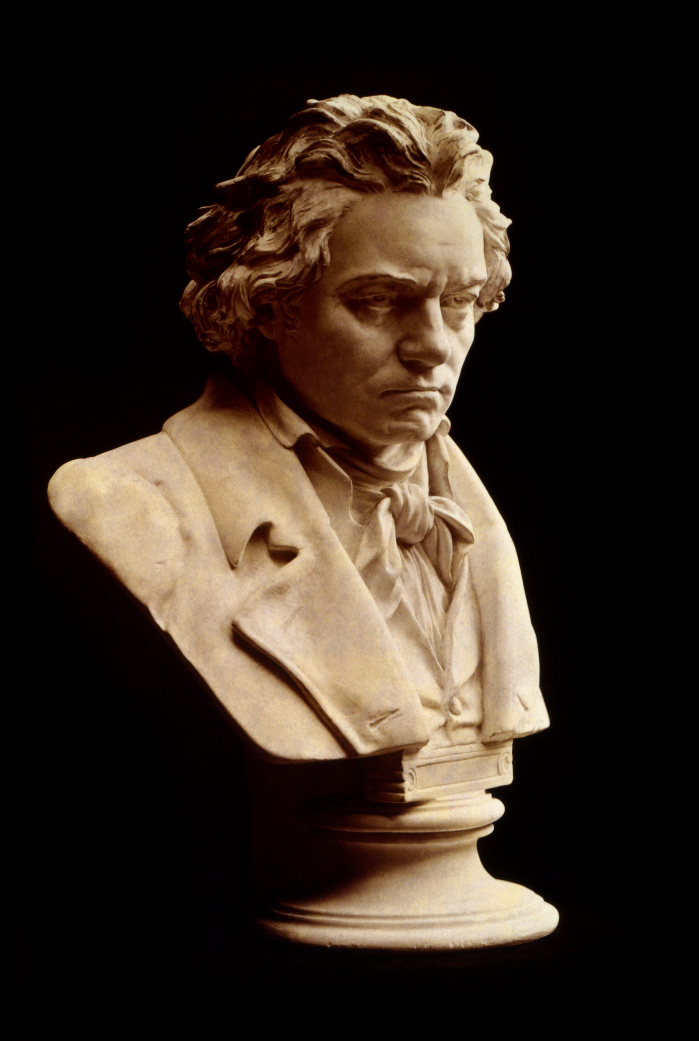 Photograph of bust statue of Ludwig van Beethoven by Hugo Hagen